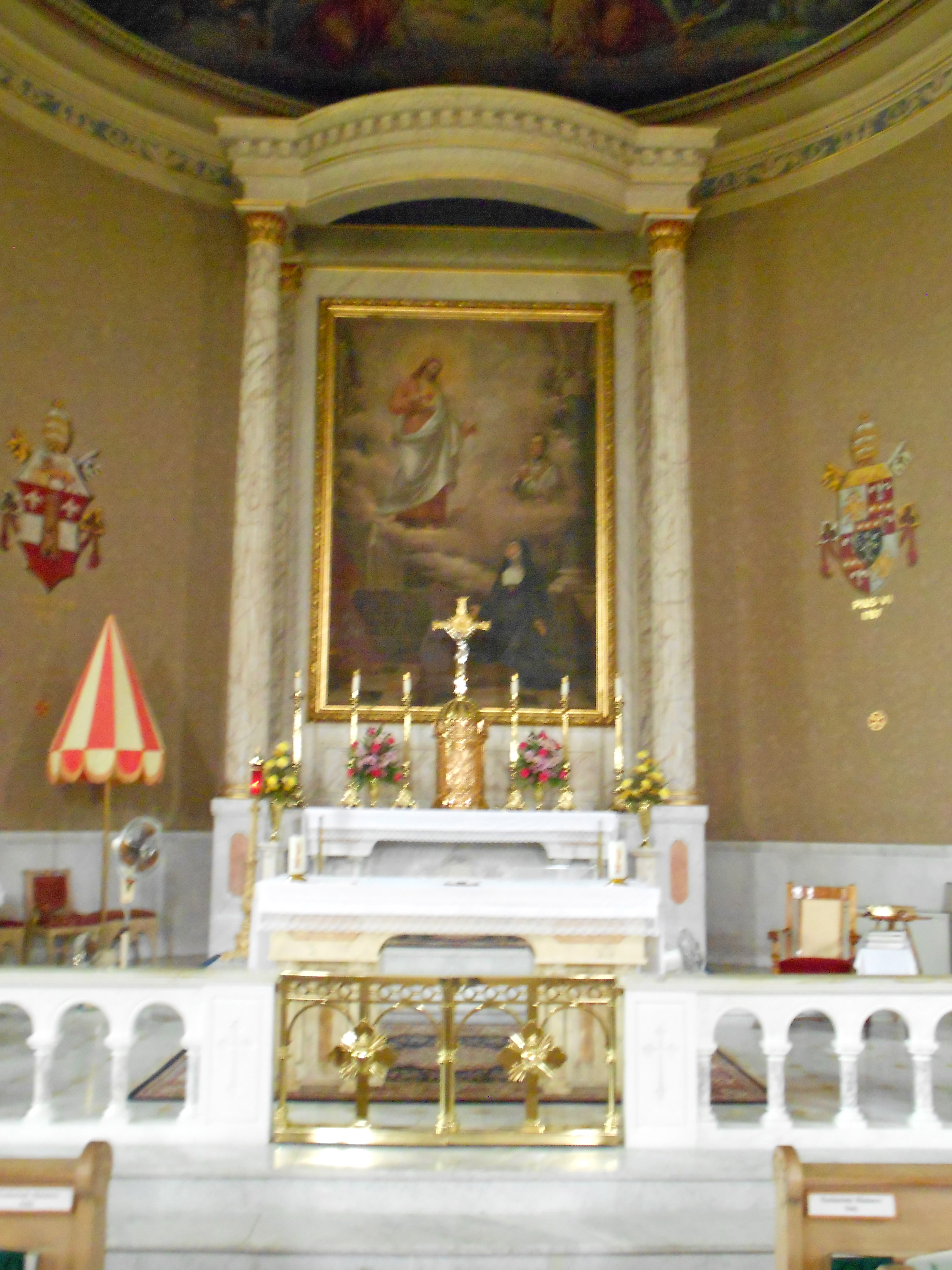 Conewago Chapel about 3 miles (4.8 km) northwest of Hanover, Conewago Township, Adams County, Pennsylvania Area: 1 acre (0.40 ha) Built: 1787 Architectural style: Federal Governing body: Roman Catholic Church Added to NRHP: January 29, 1975 Associated with Prince Gallitzin